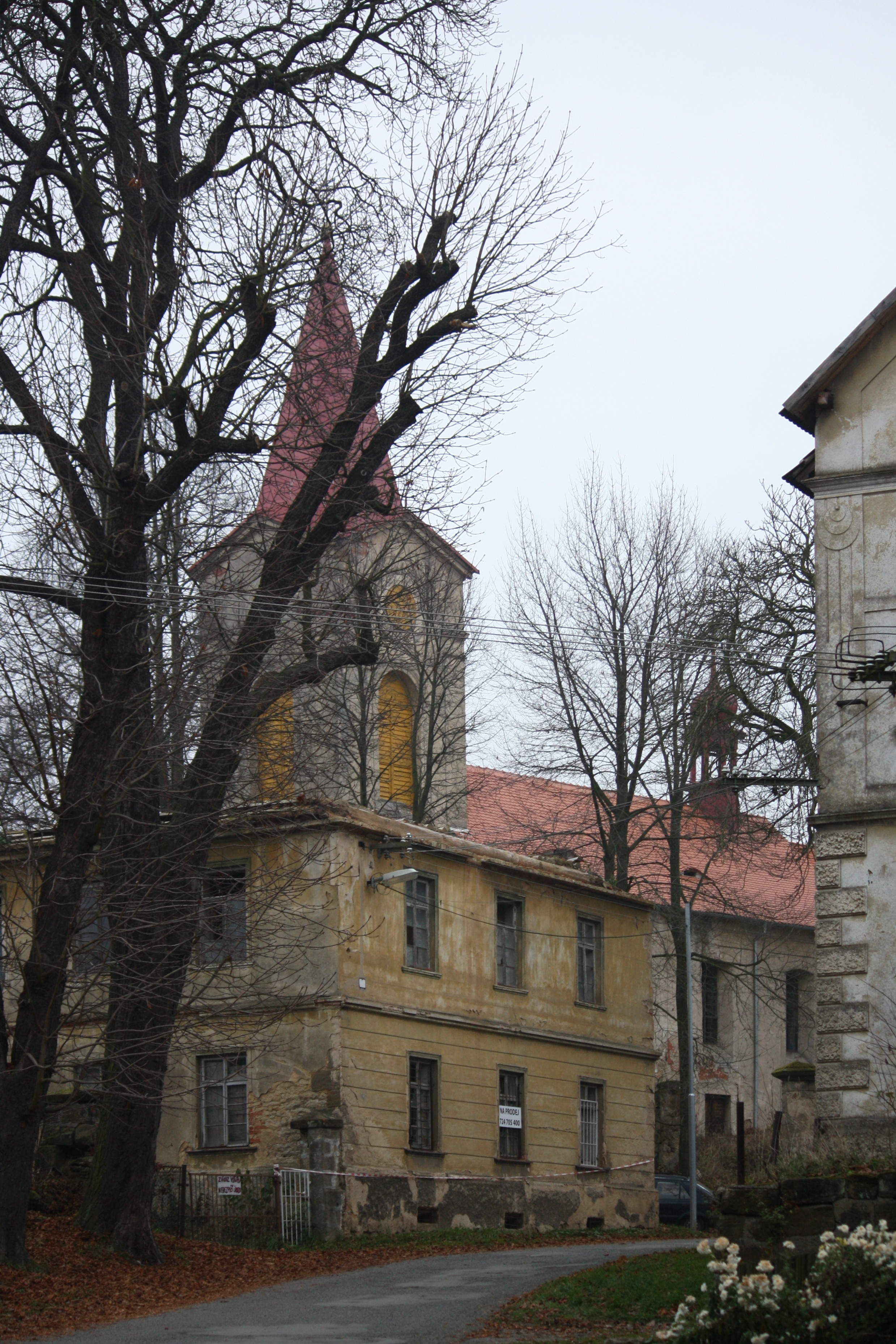 Drchlava, Česká Lípa District, Czech Republic. St. Nicholas church (partially obscured by house No. 5)